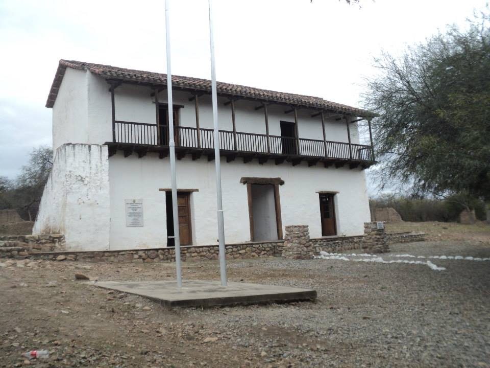 cobos salta